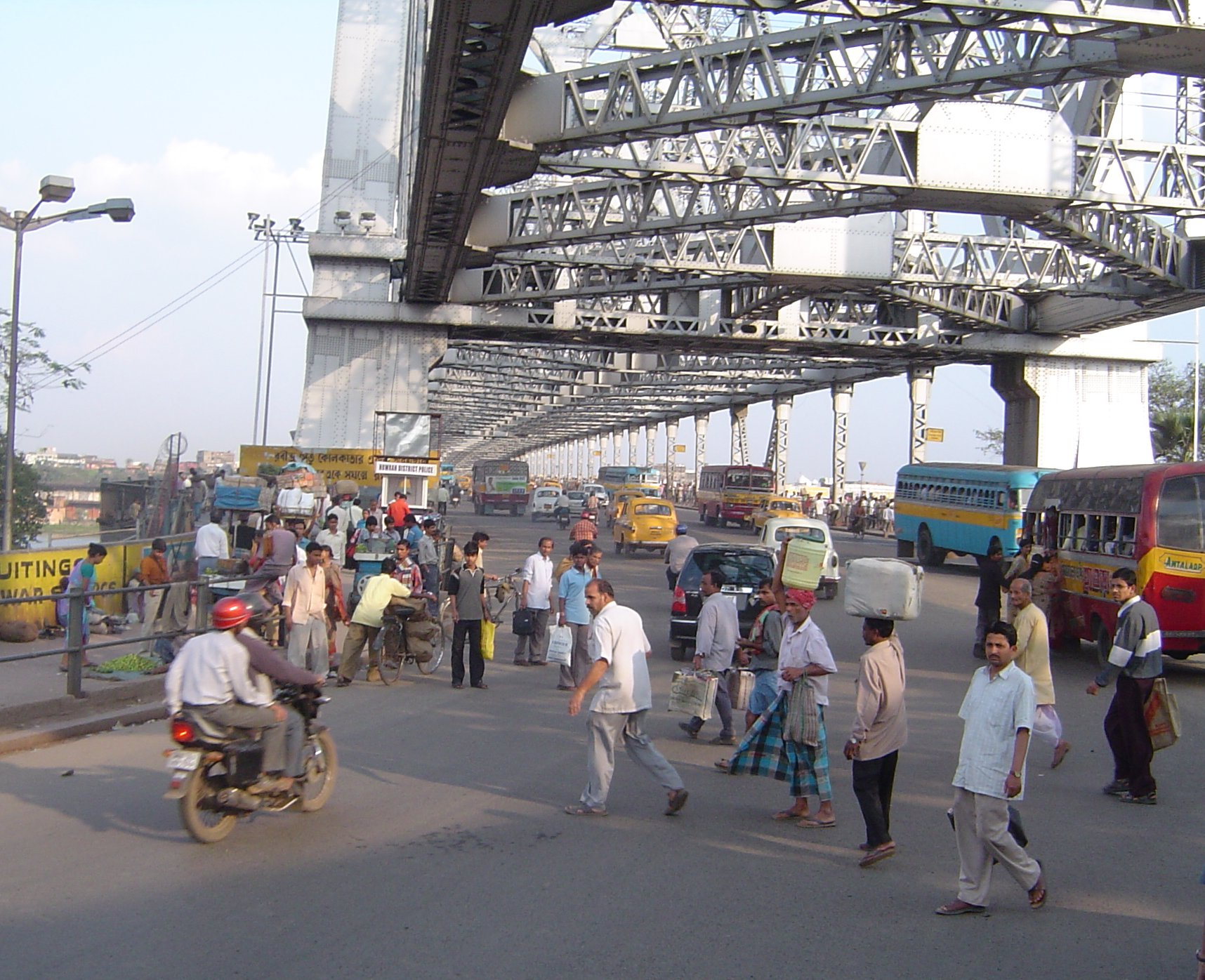 The approach to Howrah bridge from Howrah side